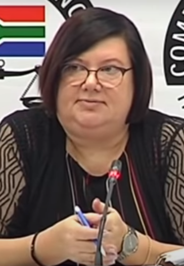 Caption from YT: "Former Free State MEC of Finance, Elzabe Rockman, will resume with her evidence at the state capture inquiry on Thursday." (29:57)